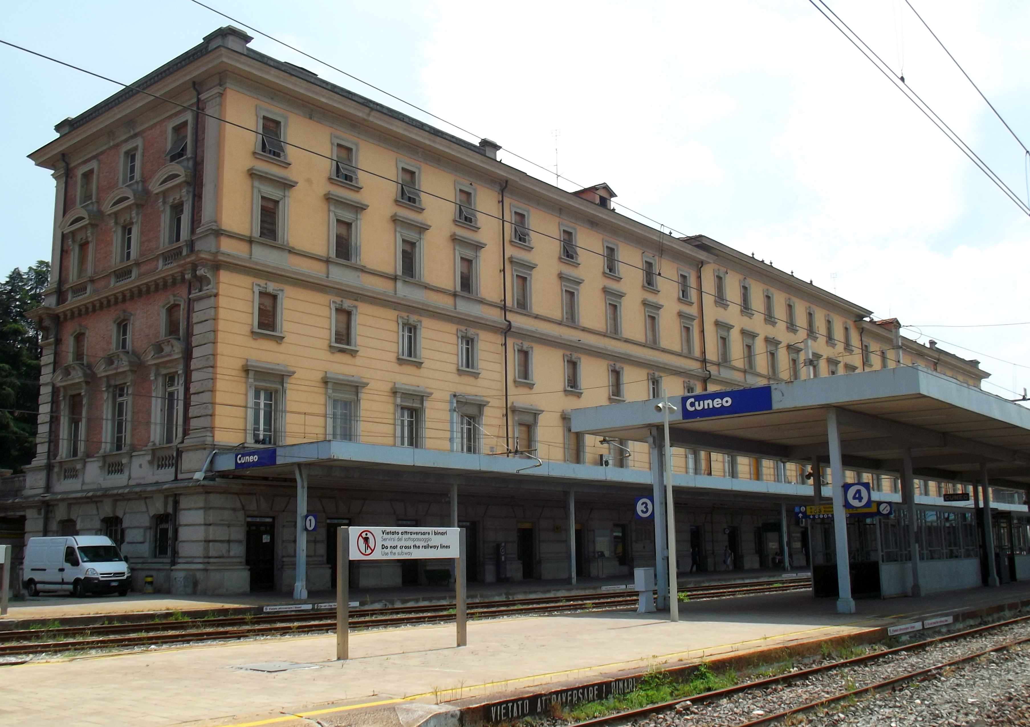 Cuneo train station (Italy) - inner side